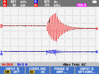 A zoomed view to the high frequency ignition pulse created by the electronic ballast to strike the metal halide lamp.